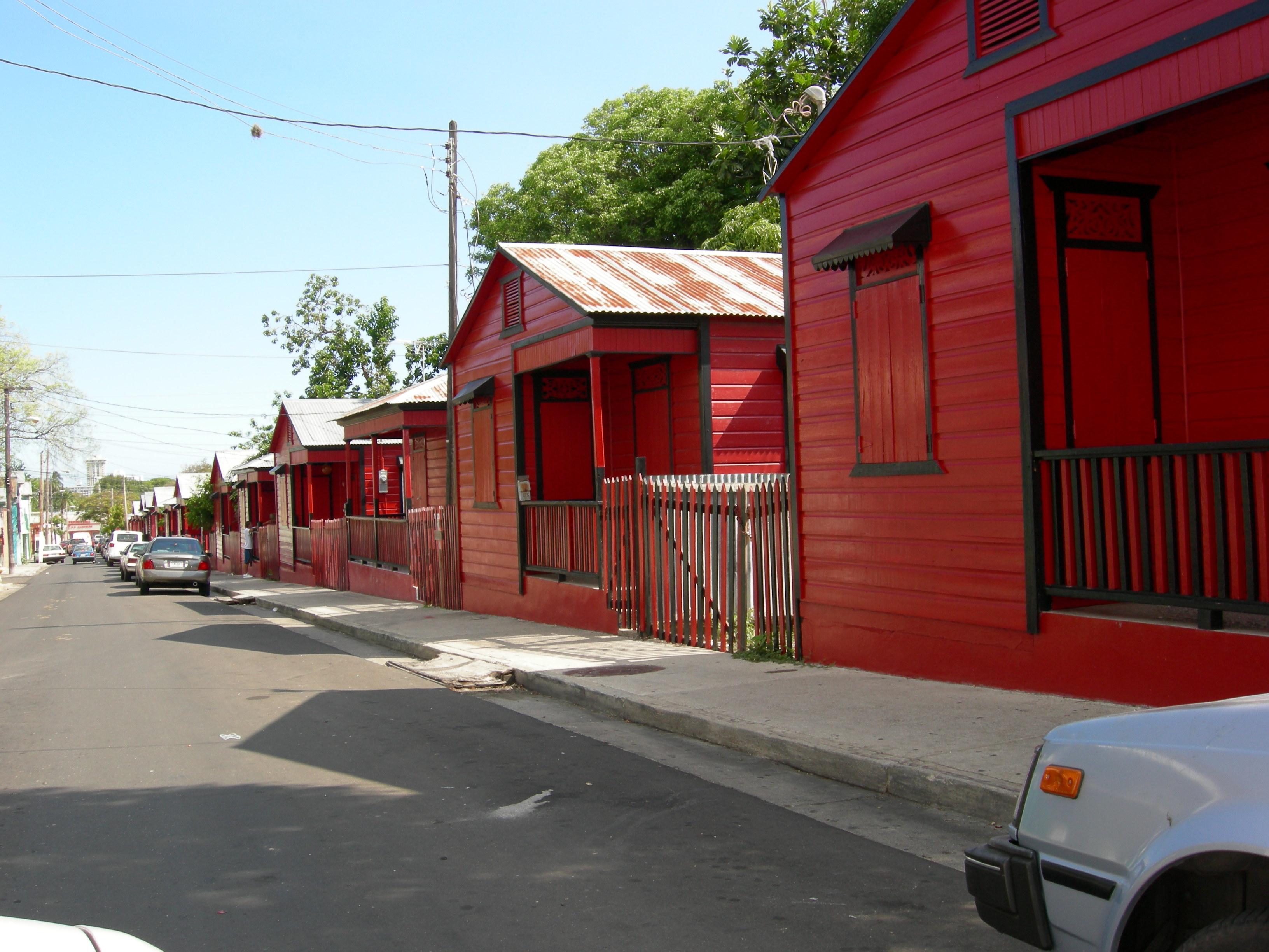 Picture of Calle 25 de Enero (25 de Enero Street) near old historic district, Ponce, Puerto Rico.